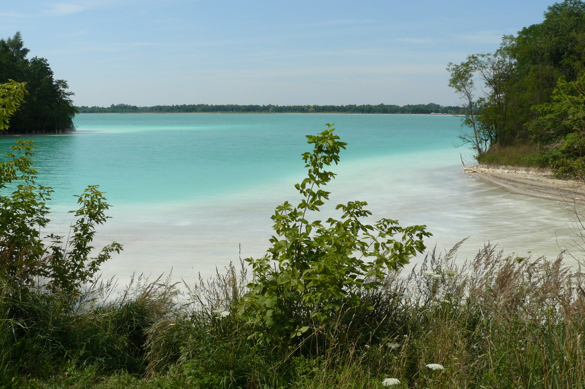 Setter Gajowka arround Turek.